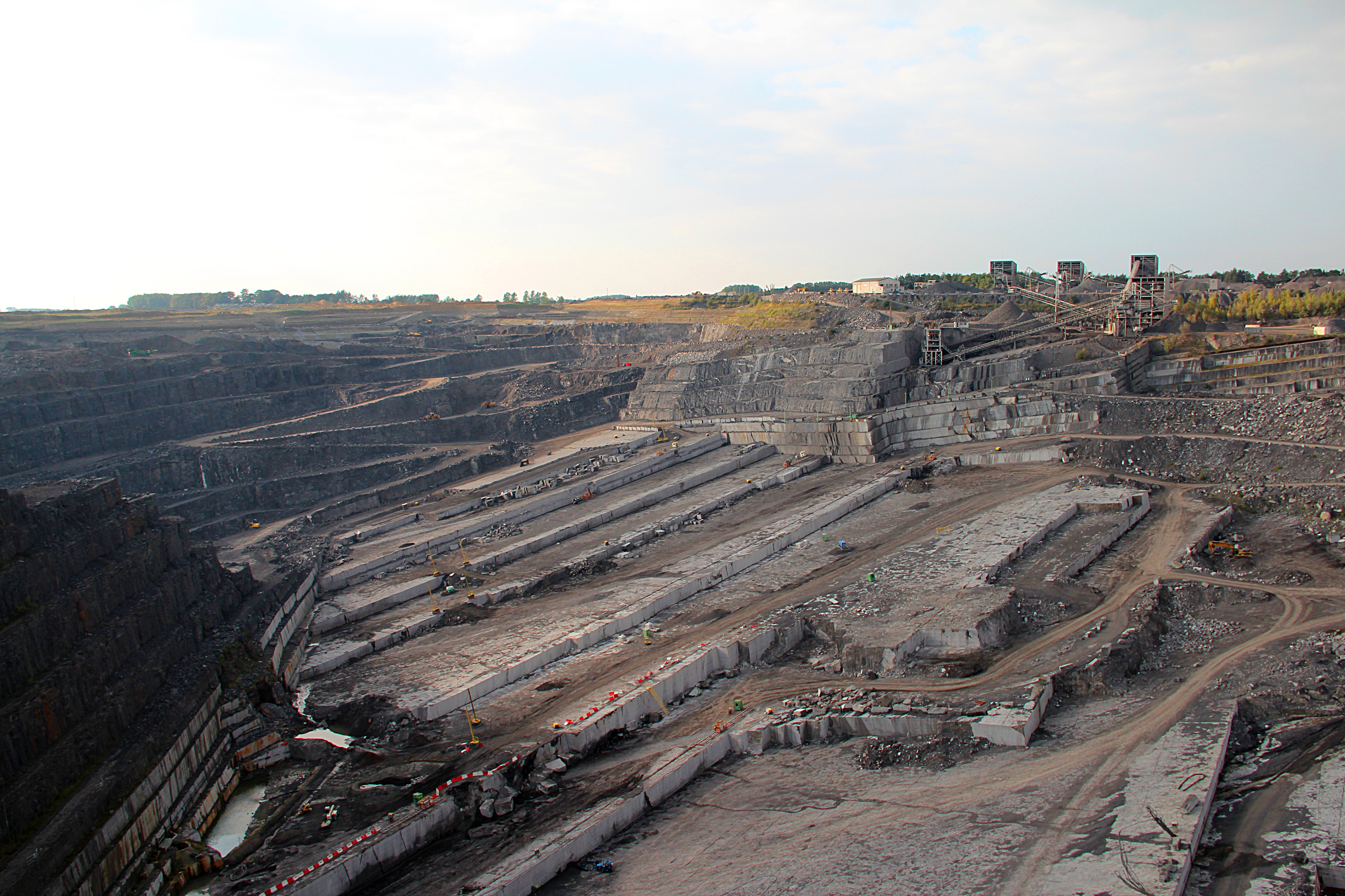 Soignies (Belgium), the site of the Hainaut quarry.